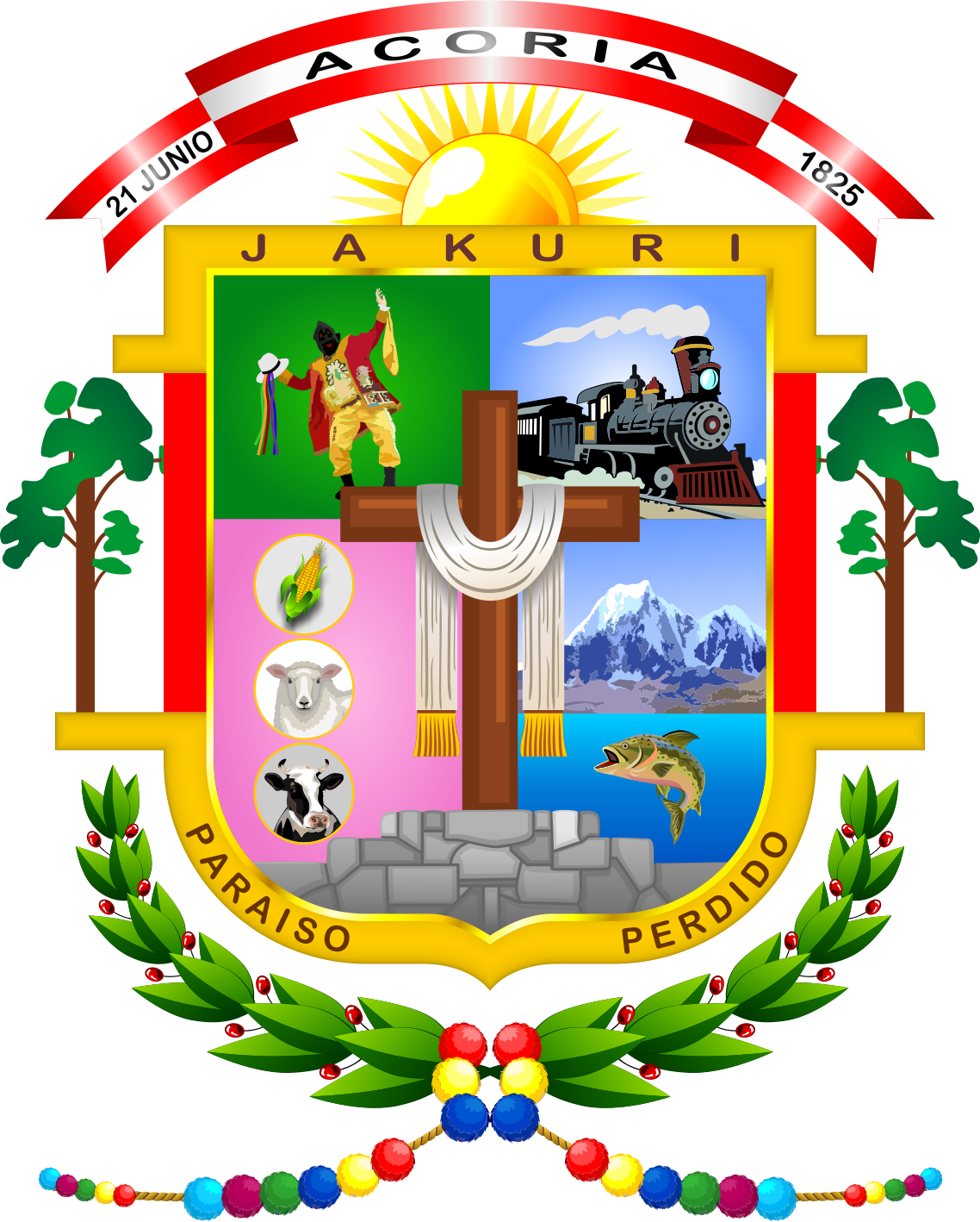 Coat of Arms of the Acoria District - Huancavelica Province - Huancavelica Region